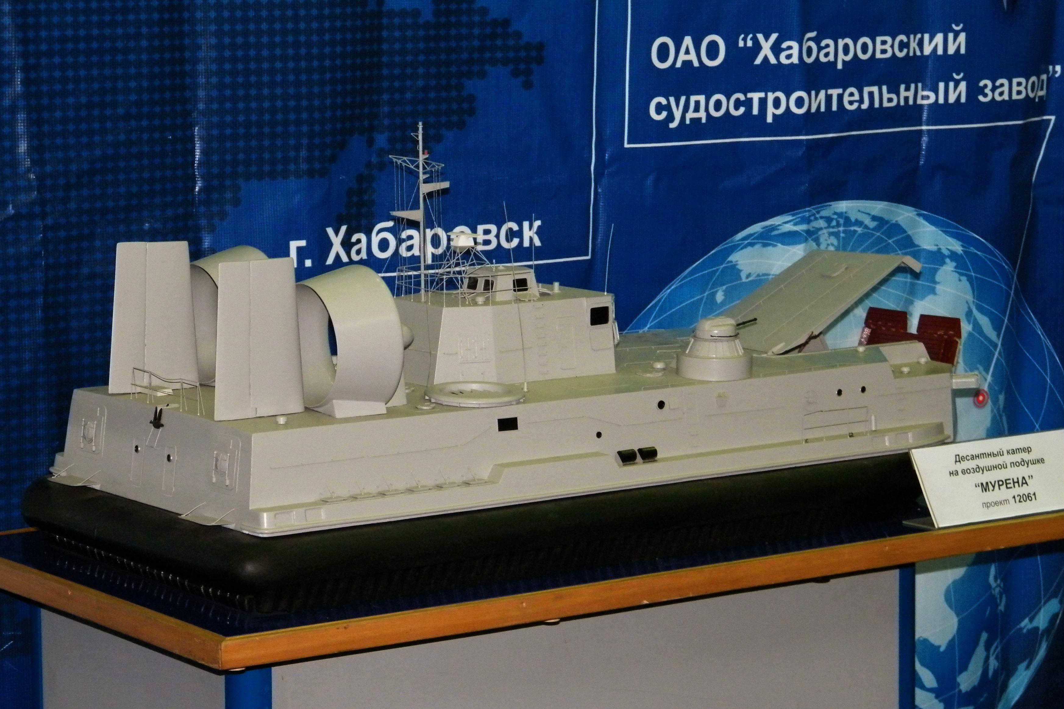 СВП Мурена модель